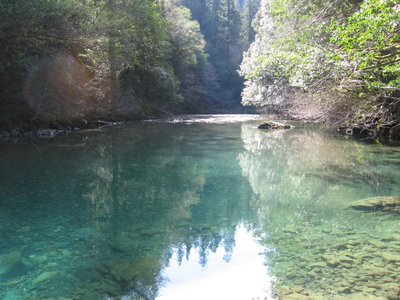 The Winchuck River in southern Oregon.